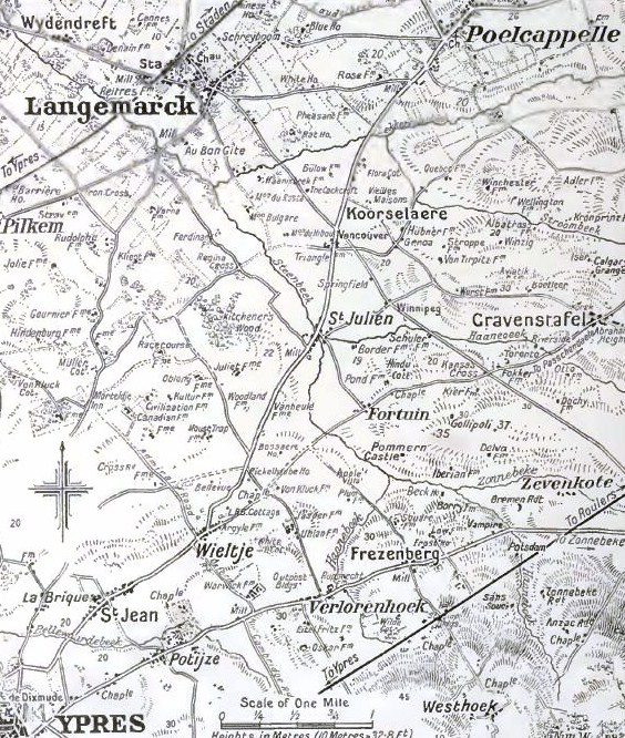 Map of Ypres and Langemarck areas 1914-1918